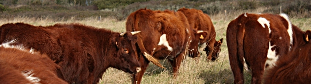 Armorican cattle ban